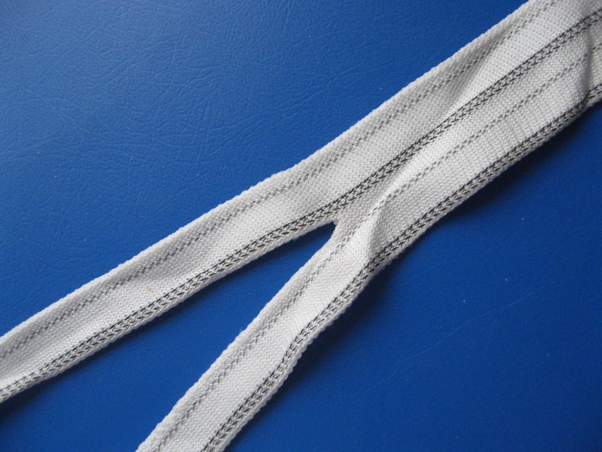 Warp knitted artificial blood vessel with bifurcation, in state of coming down from the knitting machine (raw state)